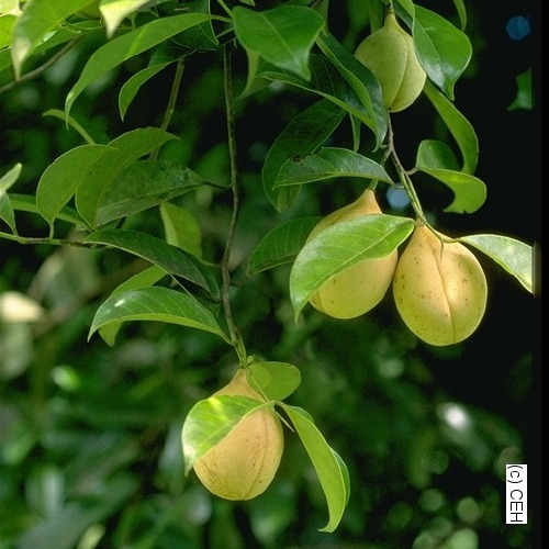 The food which we get from Myristica malabarica can be eaten.